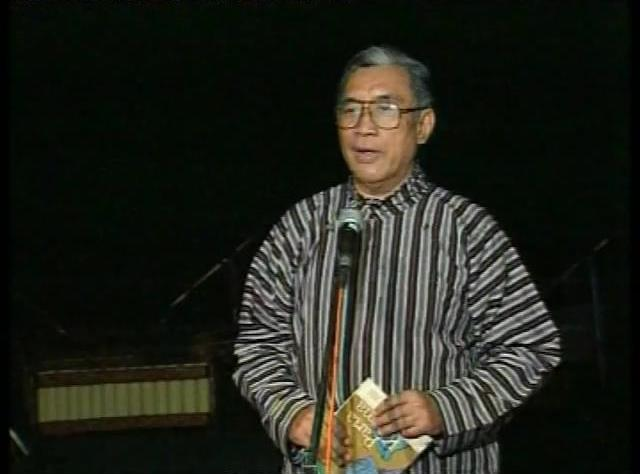 Umar Kayam, Indonesian author